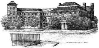 pencil drawing of Newburyport Public Library